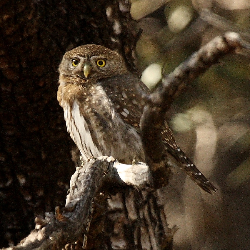 Mountain Pygmy Owl Glaucidium gnoma, Patagonia Mountains, Arizona